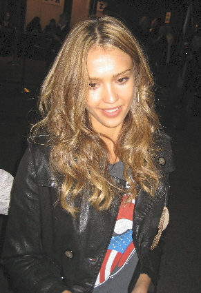 Jessica Alba at the Toronto Film Festival 2007